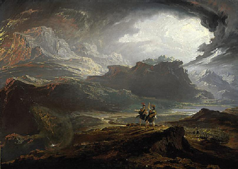 Macbeth and Banquo meeting the three witches. Siward's Northumbrian army is approaching (right).